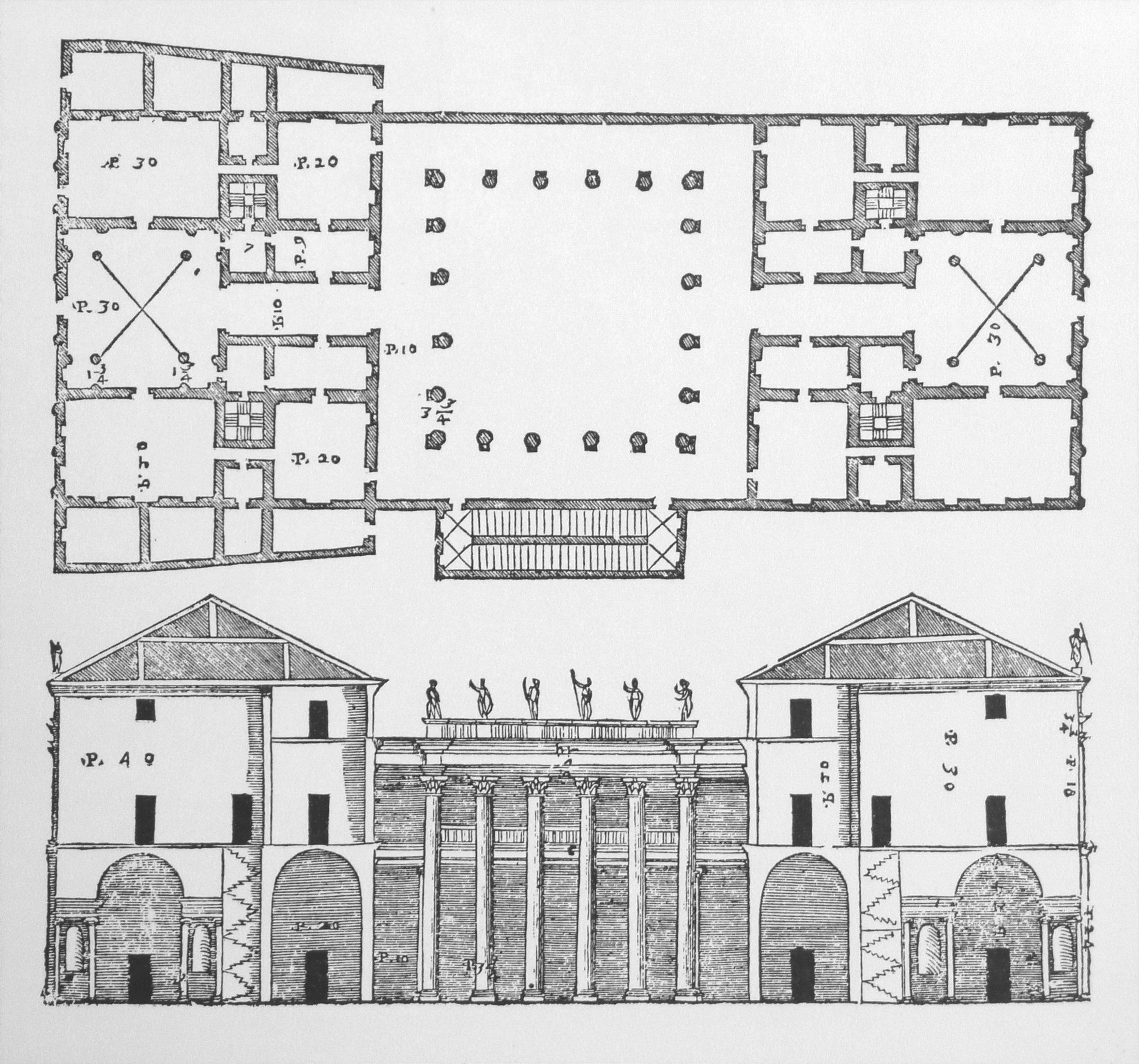 Palazzo Porto in Vicenza, drawing of the original project (partly realised) by Andrea Palladio, from I Quattro Libri dell'Architettura, 1570.